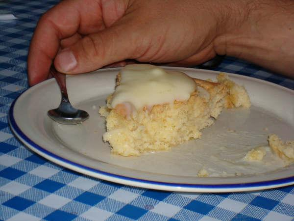 Solskenskaka, made of spongecake and almond